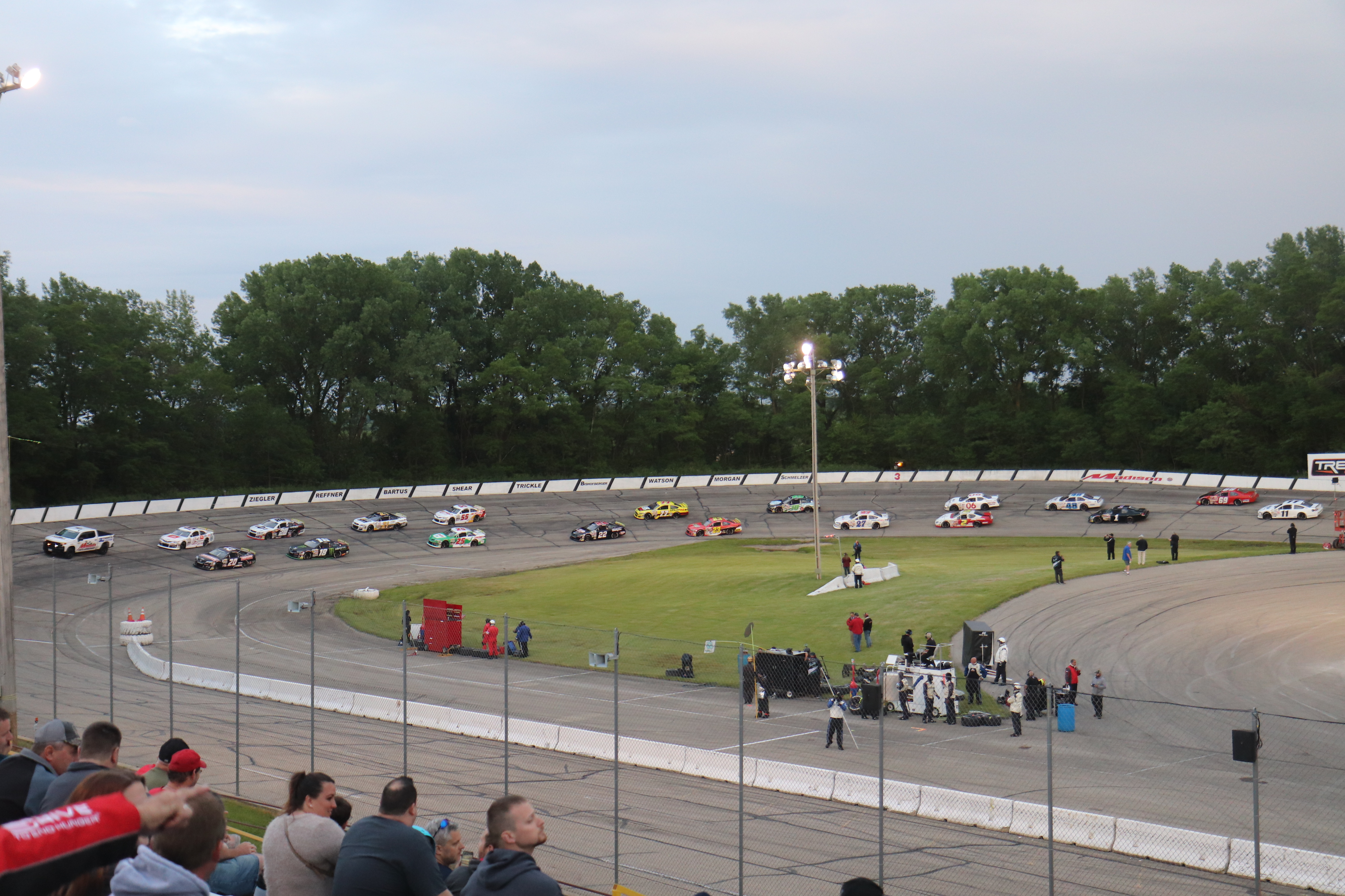 the field of ARCA drivers for the 2019 Shore Lunch 200 at Madison International Speedway.